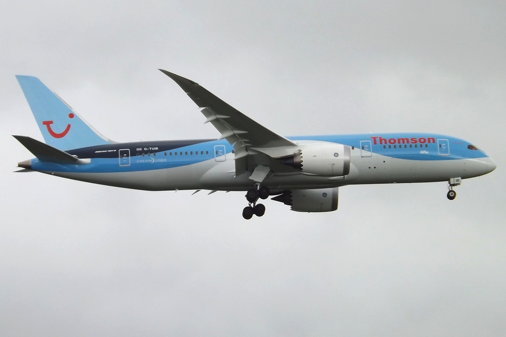 G-TUIB Boeing 787 Dreamliner Thomson landing at Glasgow. This is the first of type at Glasgow